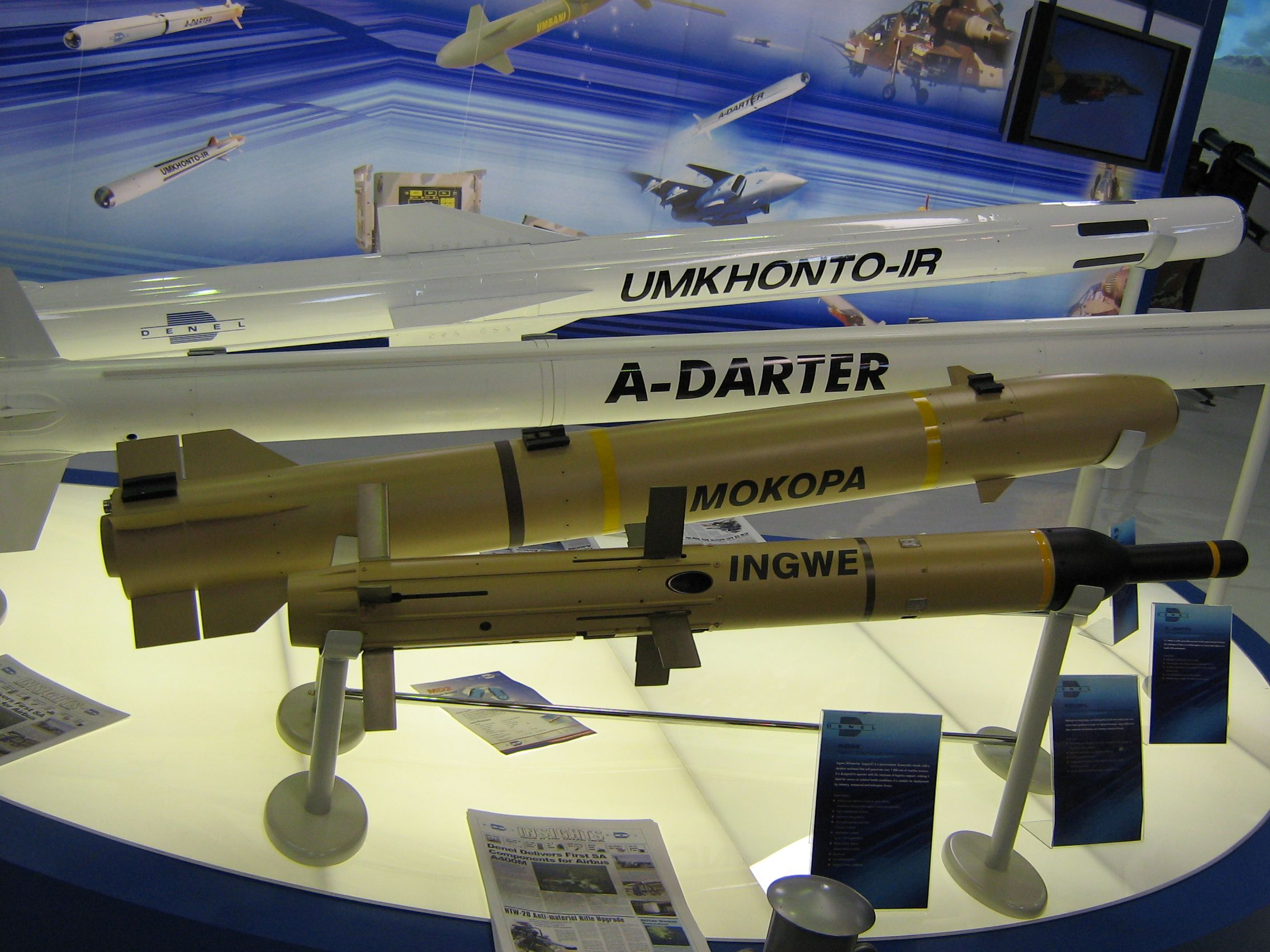 Denel Aerospace Systems missiles (including Umkhonto, Mokopa, Ingwe and A-Darter), as displayed at Africa Aerospace & Defence expo, 2006.